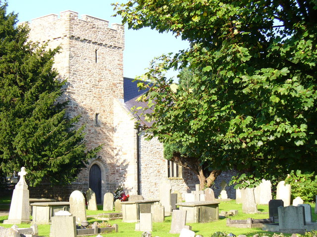 Sully Church Stone church with squat tower at the west end of Sully village.